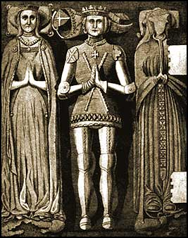 Portrait of John Tiptoft, 1. Earl of Worcester